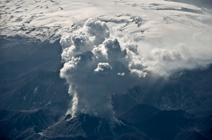 Close-up of the new cinder cone of the Chaitén Volcano in eruption, seen from a commercial airliner